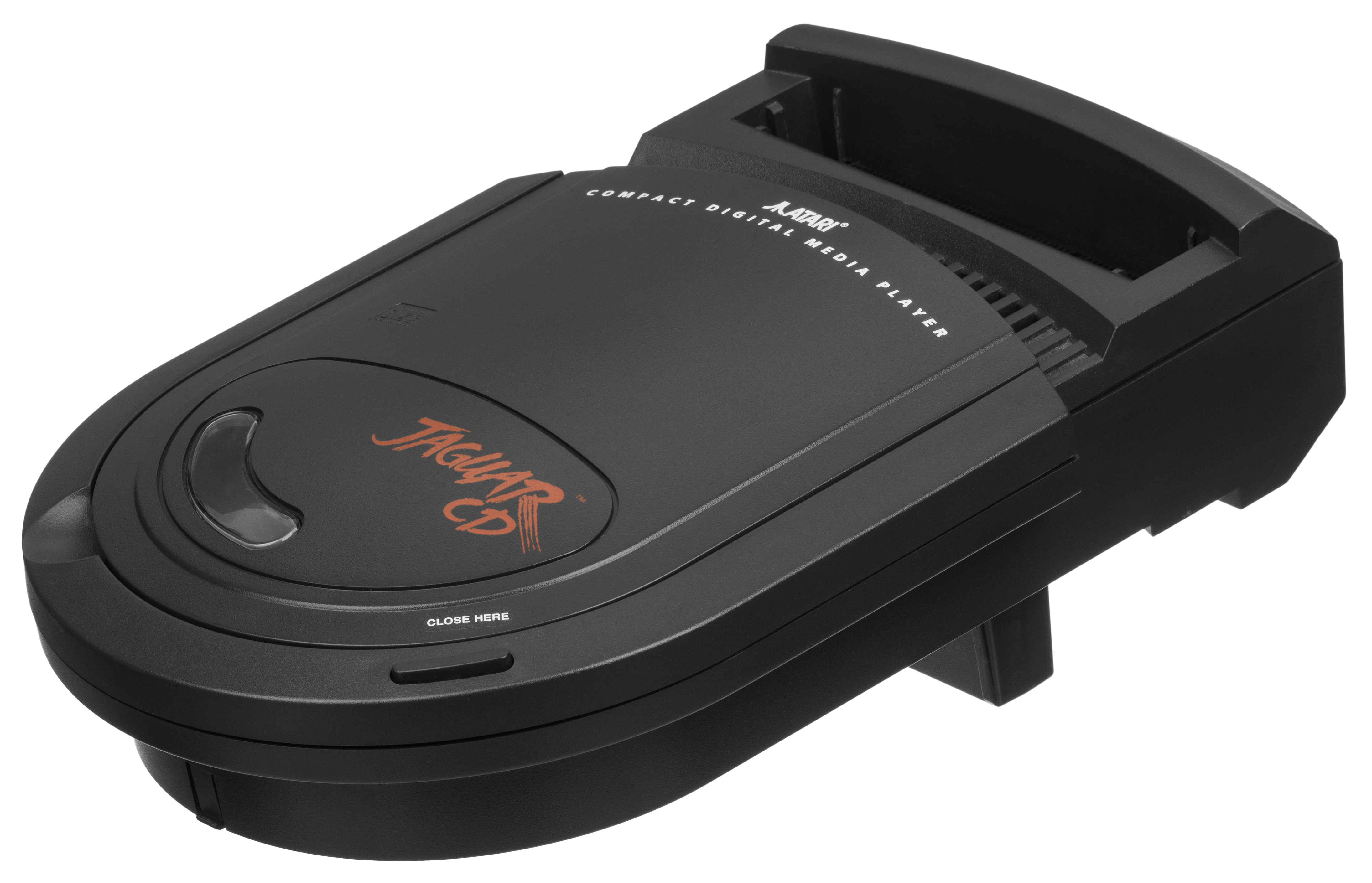 The Atari Jaguar CD, an add-on for the 1993 Atari Jaguar home gaming console. The Jaguar CD was released in 1995 and is an add-on drive that allowed the system to play music CDs or games from CD-ROMs. It attached to the top of the console, plugging into the cartridge slot. It has a pass-through slot on the top for games cartridges or an optional Memory Track cart, which would allowed for game saving when playing CD-ROMs. The Jaguar CD required its own power supply and has a DC power port on the back of the unit.